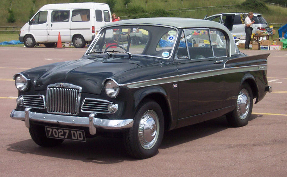 Summary Sunbeam Rapier Series IIIA. Picture by David Parrott.